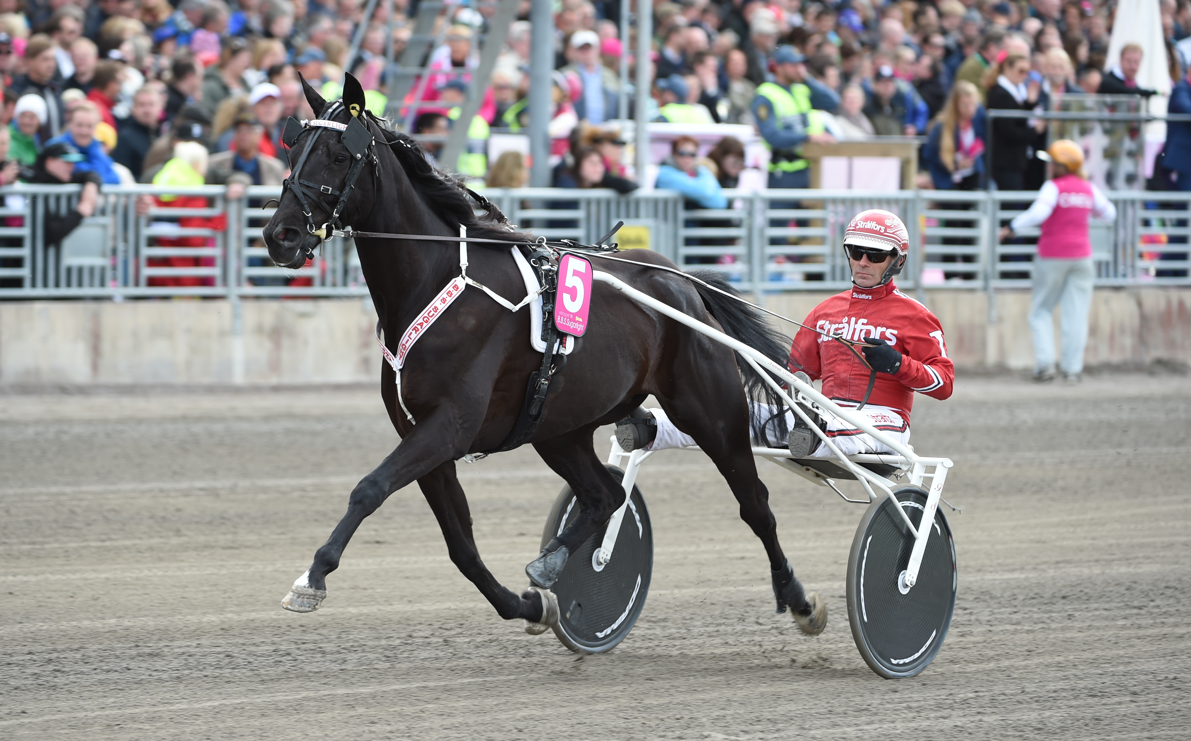 B.B.S.Sugarlight and Peter Untersteiner, Elitloppet 2015.